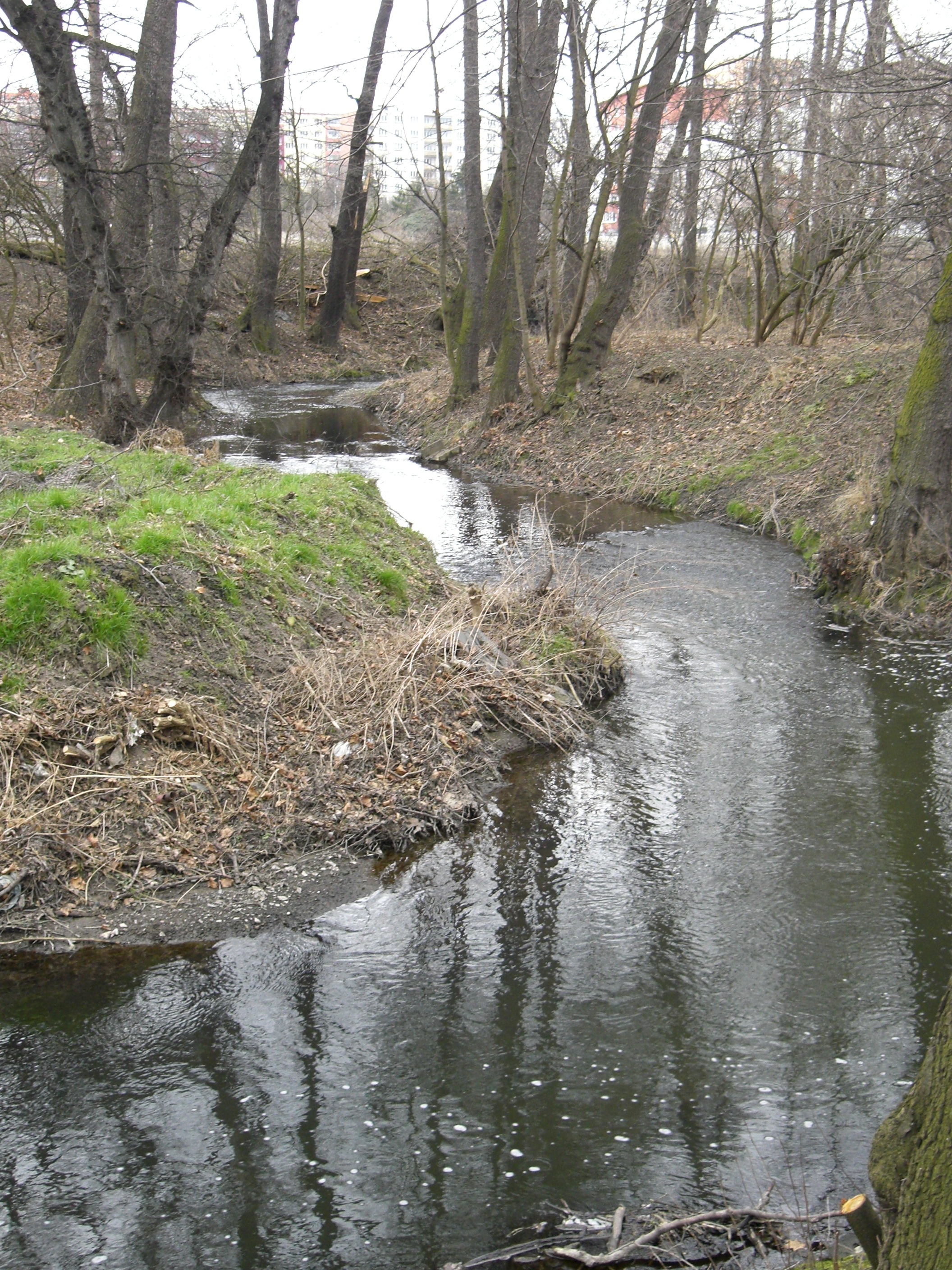 Nature reservation Meandry Botiče in Prague, 2007.